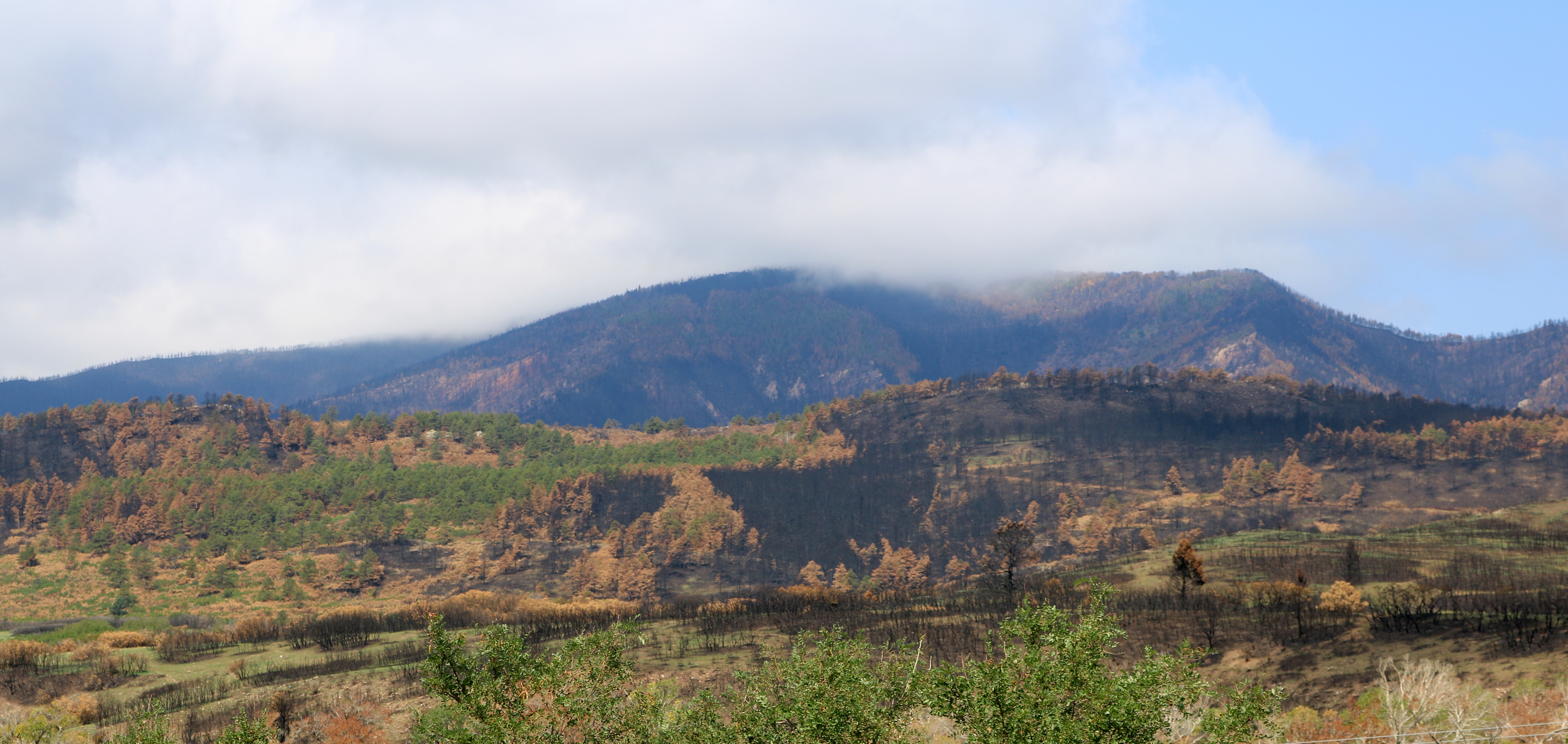 Part of the Spring Creek Fire burn scar. The view is from Colorado State Highway 12, at Devils Stairsteps, between La Veta and Cuchara, looking towards the west towards Kruger Mountain.